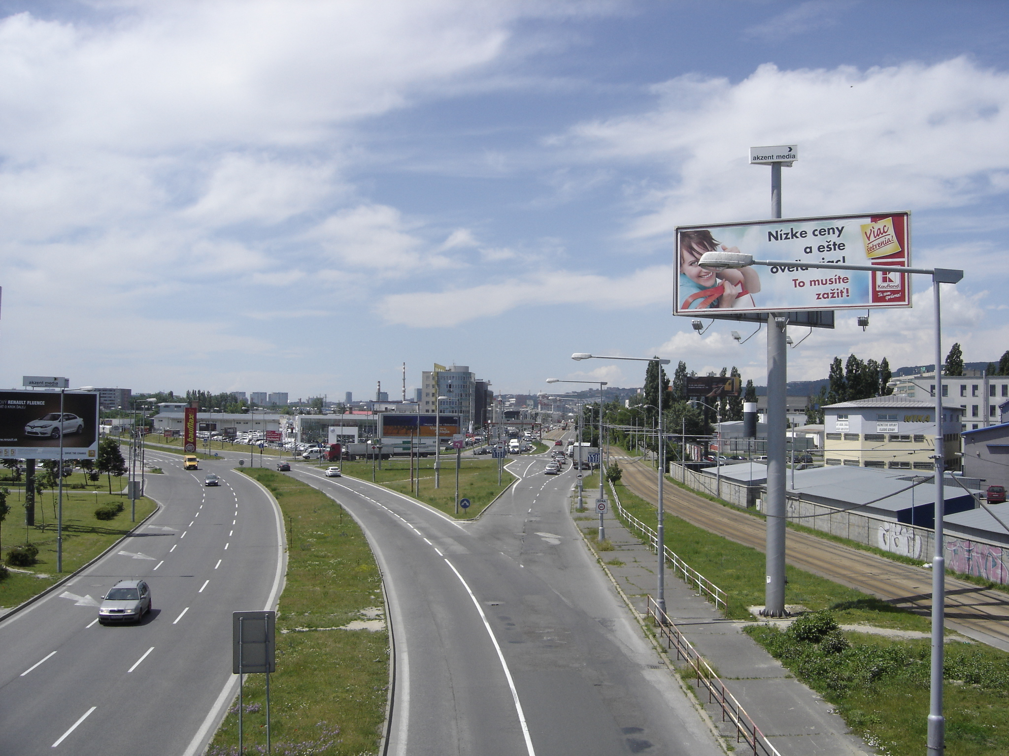 Vajnorská street - Bratislava, Slovakia